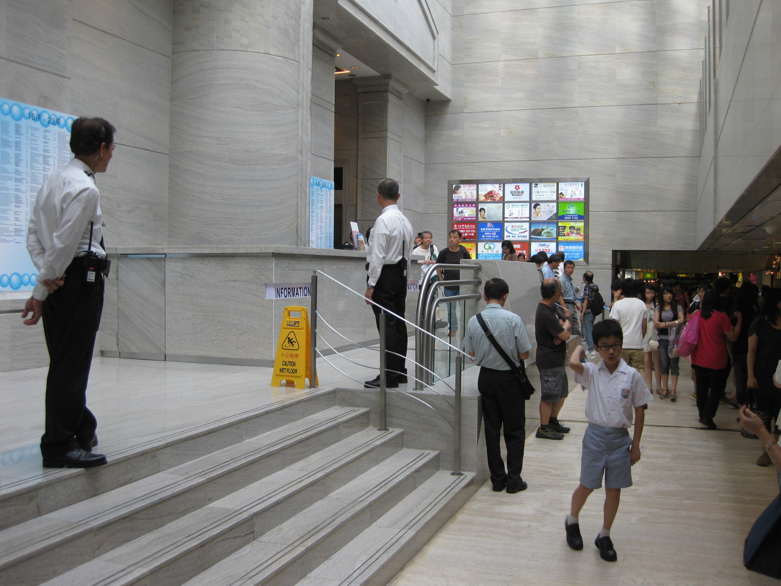 Nan Fung Centre Information Centre and Lift Lobby after renovation